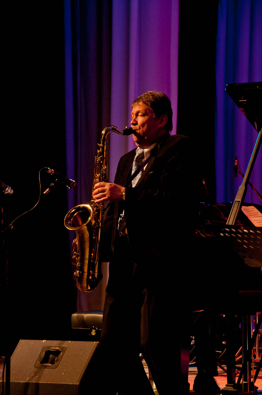 Lembit Saarsalu